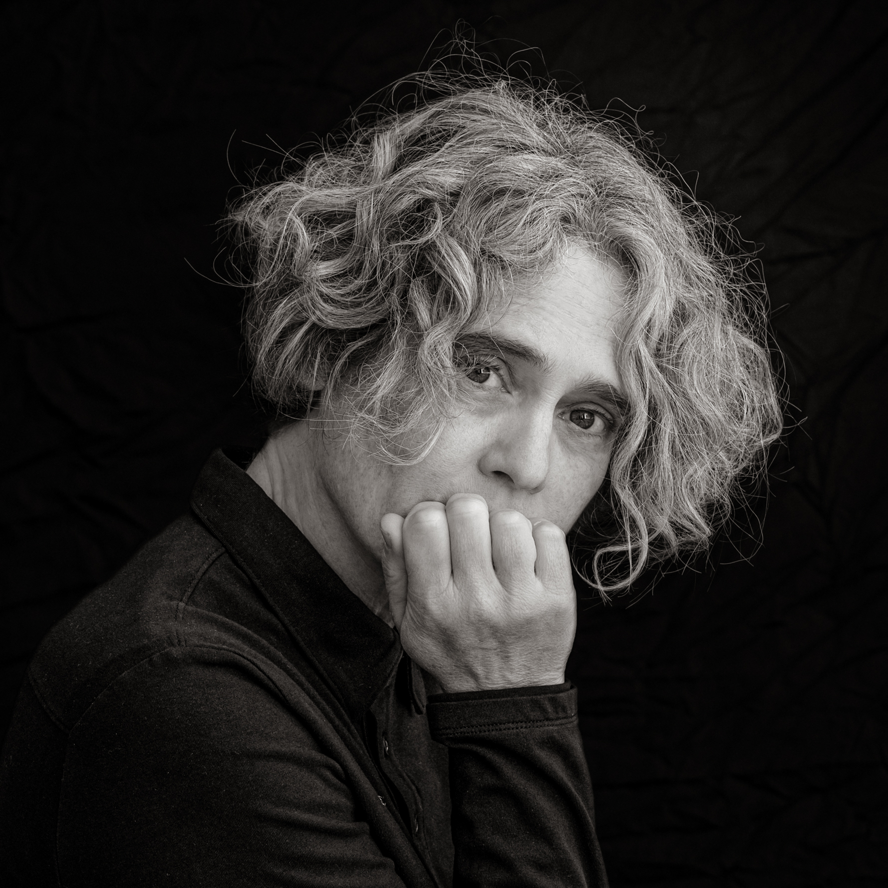 Michal Sapir is a musician, author & translator